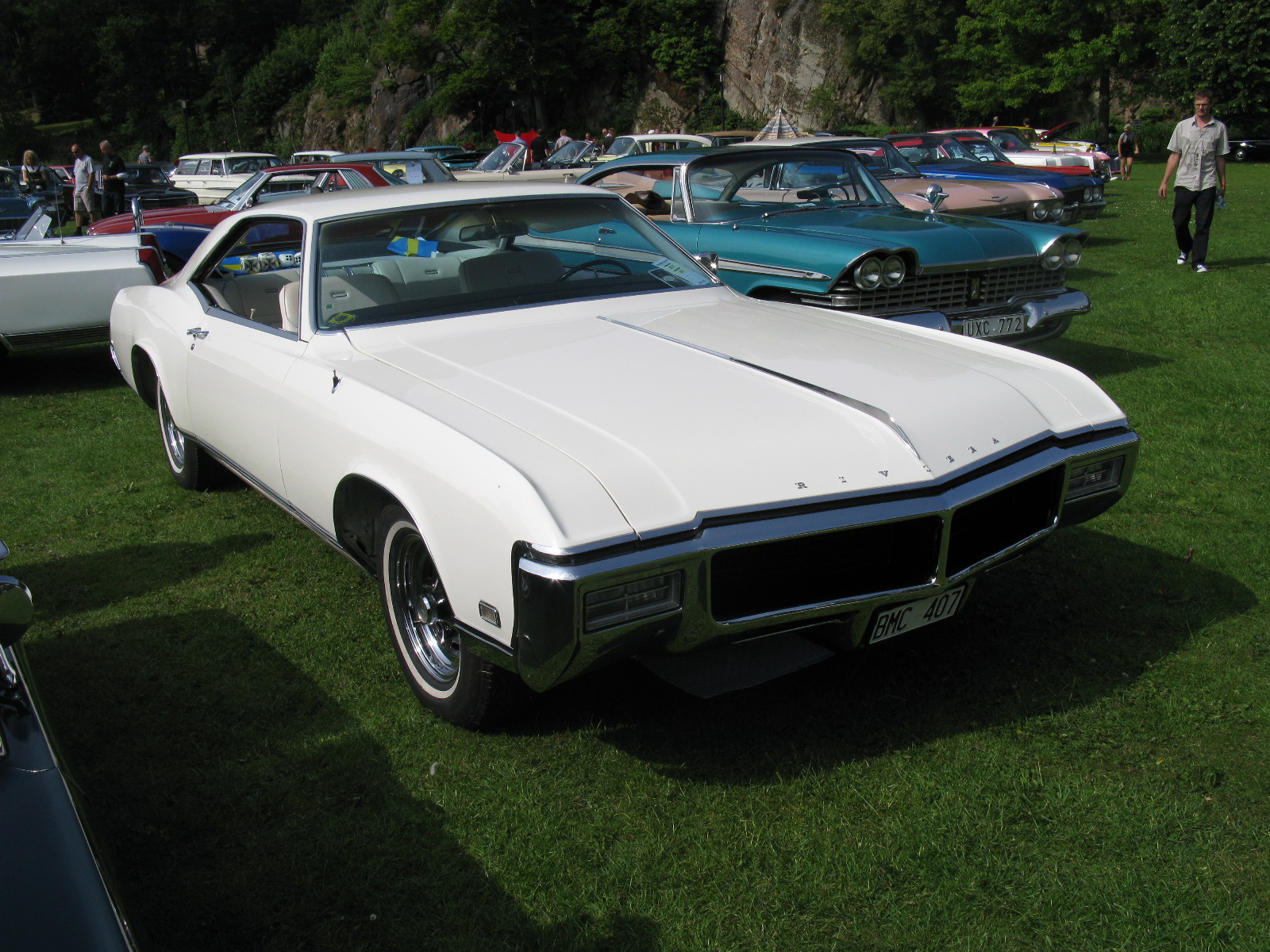 Buick Riviera 1968